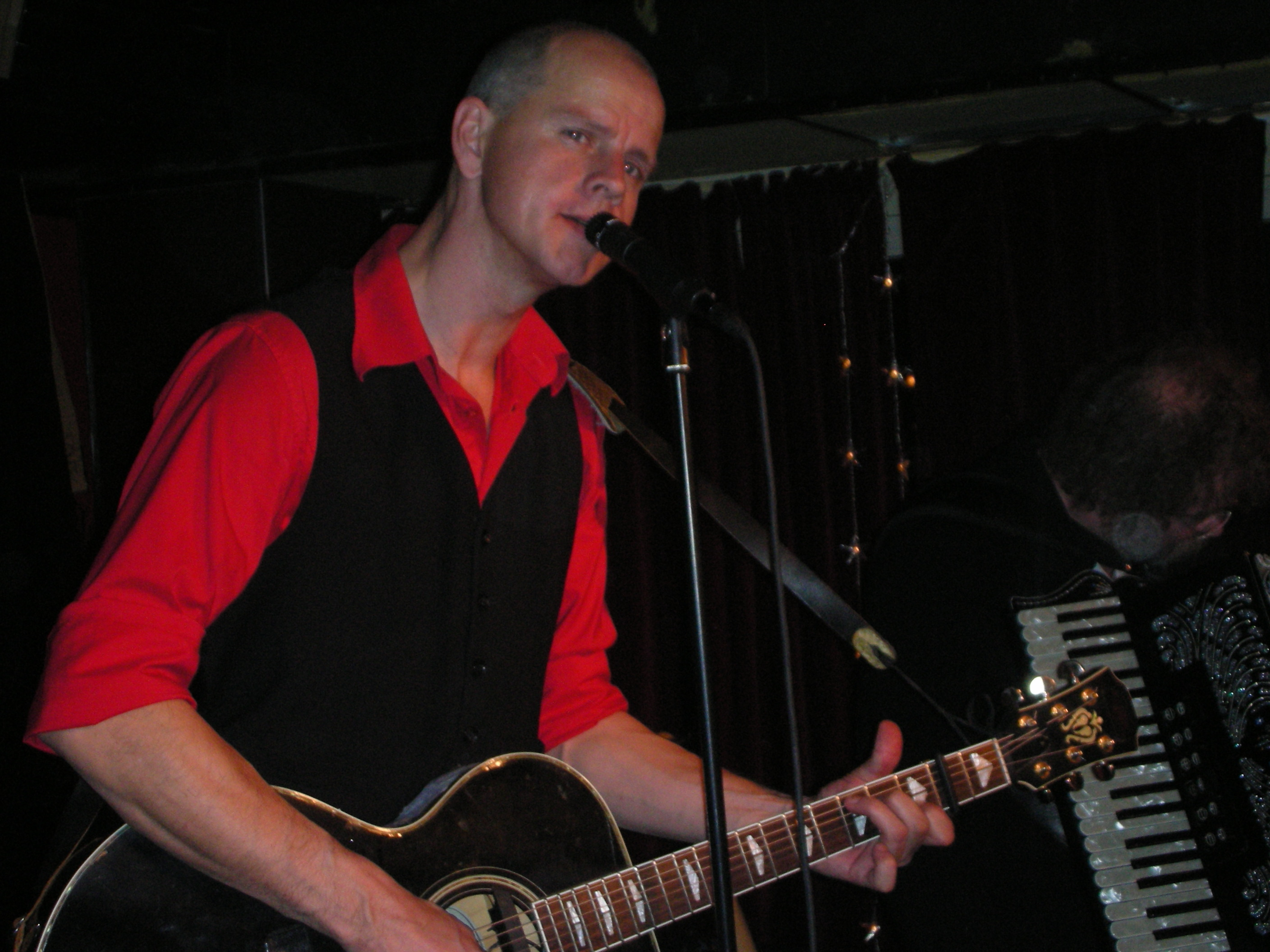 Per Persson from Persson Pack, during a concert in Örebro, Sweden